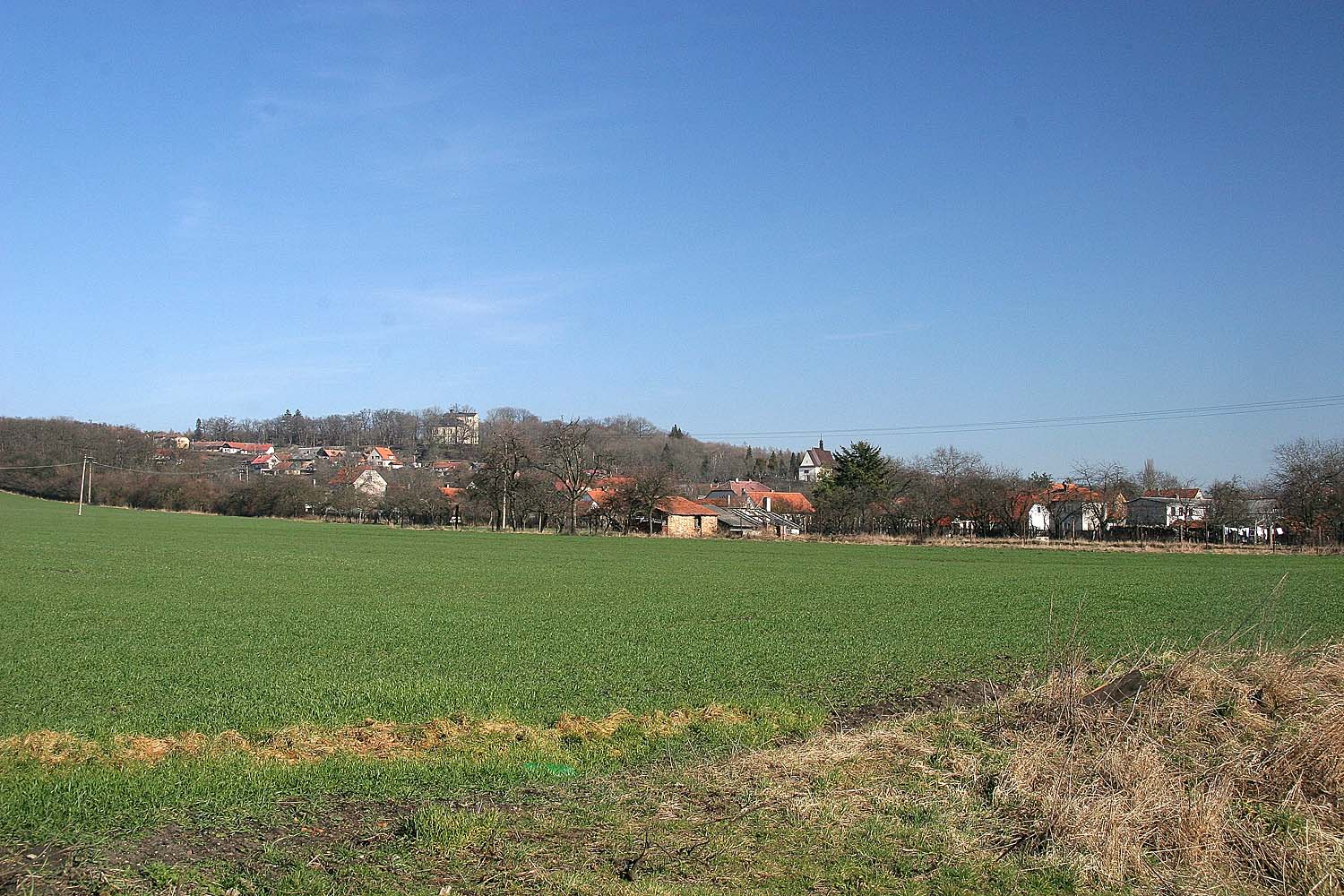 Mcely, district Nymburk autor:Prazak date: 17. 2. 2007